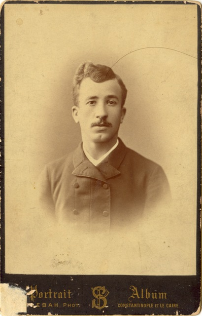 Dimitar Kudoglu by Pascal Sebah